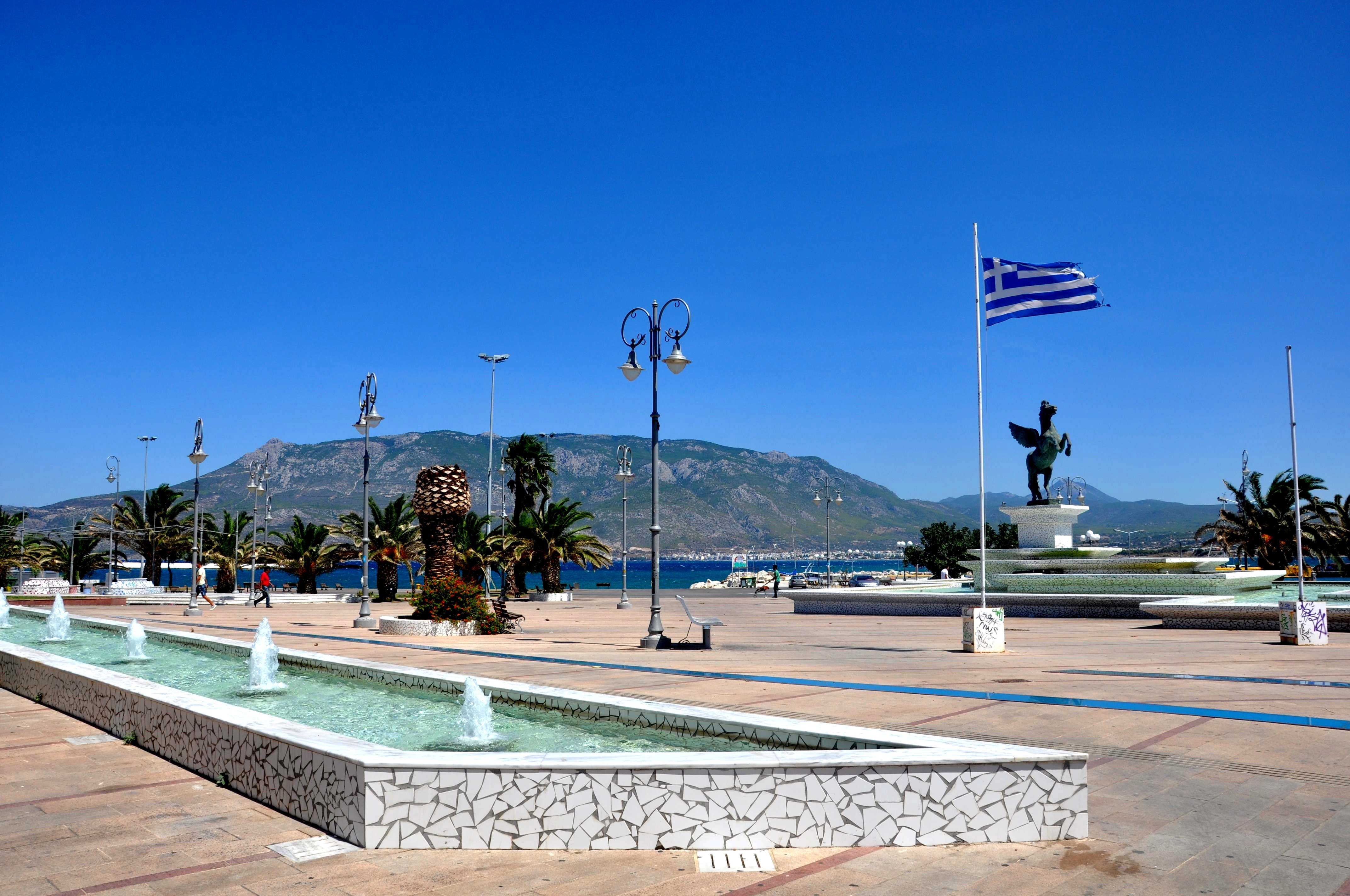 Corinth